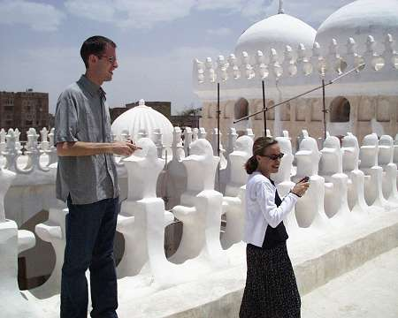 Intern Jason Fabbricante and Acting Public Affairs Officer Jennifer Bryson visit the Amiriya Madrasa/Mosque Restoration Project. Image Copyright U.S. Embassy in Sanaa, Yemen.